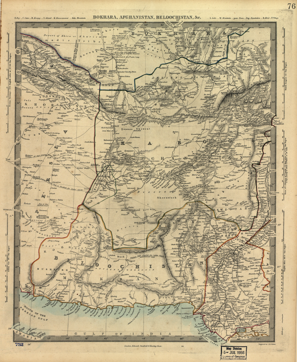 This mid-19th century British map shows Bukhara (an independent khanate located in what is today Uzbekistan), Afghanistan, Baluchistan (in present-day Iran and Pakistan), and the eastern part of Persia (present-day Iran). Five different geographic scales are provided on the left and right margins of the map: Indian cos (i.e., kos, a measure of distance dating from ancient India and still used in the 19th century), Persian farsangs (or parasangs; one farsang was equal to approximately 5.56 kilometers), French leagues, English miles, and “Hours of a Karavan of Camels.” (The map notes that a day’s journey for a caravan “is about 7 ½ hours or 16 miles”). Also shown are the names and routes of early British travelers across Afghanistan, including Forster, Christie, Fraser, Conolly, and Burnes. George Forster (died 1792) was an official of the Madras Civil Service of the East India Company who in 1783 traveled overland from Bengal to England via Afghanistan. Charles Christie (died 1812) was an Anglo-Indian officer who in 1810 undertook an exploratory journey from Bombay to Baluchistan, Sīstān, and other territories in Central Asia. James Baillie Fraser (1783−1856) accompanied Dr. Andrew Jukes of the East India Company on a diplomatic mission to Persia in 1821−22 that took him across Afghanistan. Arthur Conolly (1807−42) was an Anglo-Indian officer who traveled through Central Asia and Afghanistan in 1831−32. Alexander Burnes (1805−41) was an Anglo-Indian officer who traveled to Bokhara in 1832. The map was published by Edward Stanford (1827–1904), a London map dealer and publisher with well-known premises at Charing Cross that catered to famous explorers and political figures. Burnes, Alexander, Sir, 1805-1841; Christie, Charles, died 1812; Conolly, Arthur, 1807-1842; Expeditions and surveys; Explorers; Forster, George, died 1792; Fraser, James Baillie, 1783-1856